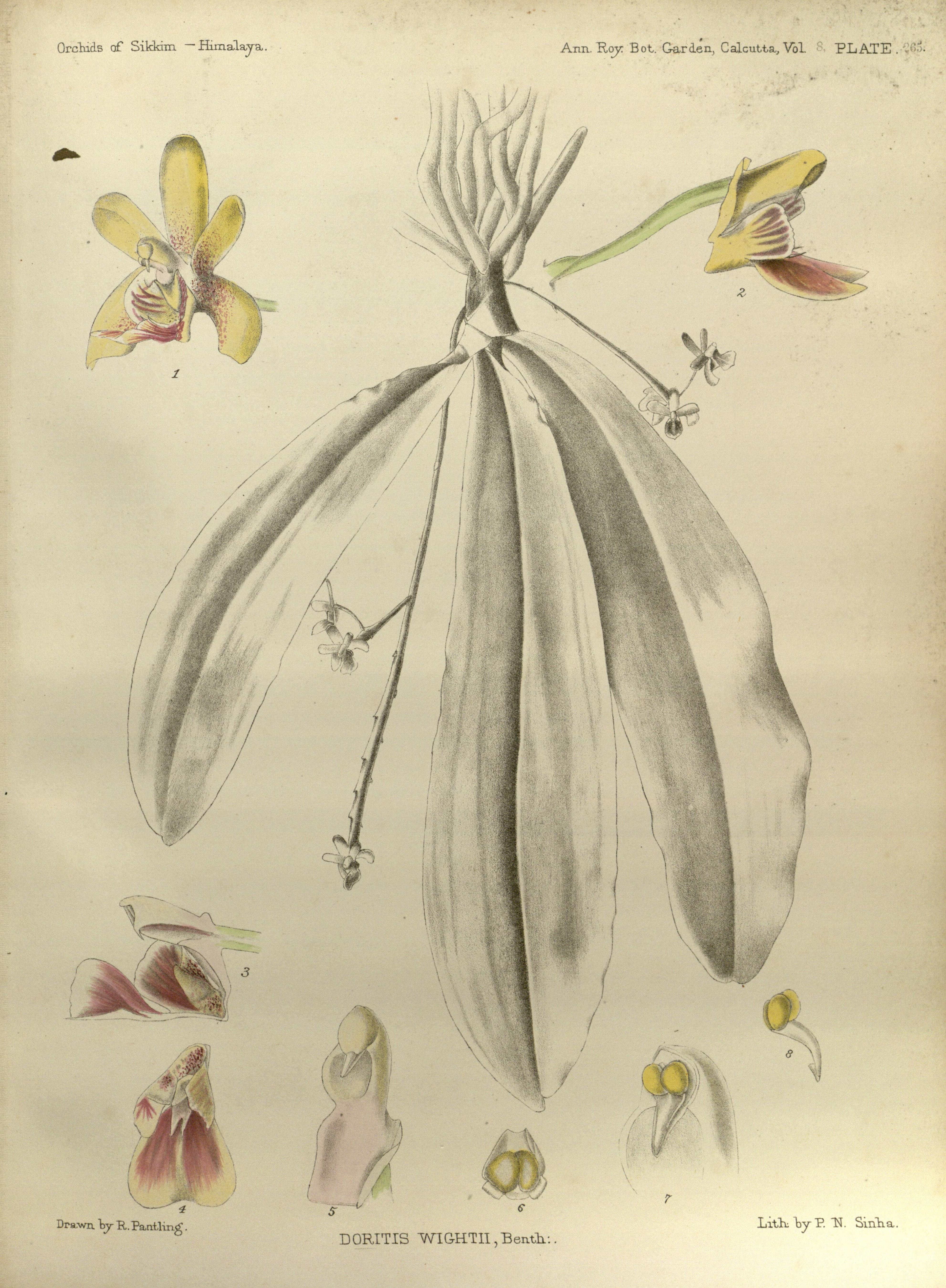 Phalaenopsis deliciosa = Doritis wightii